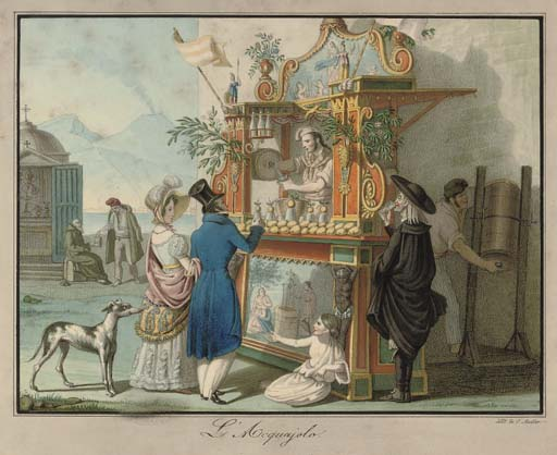 Life in Naples : L'Acquajolo designed by Carlo Muller (early 19th Century).